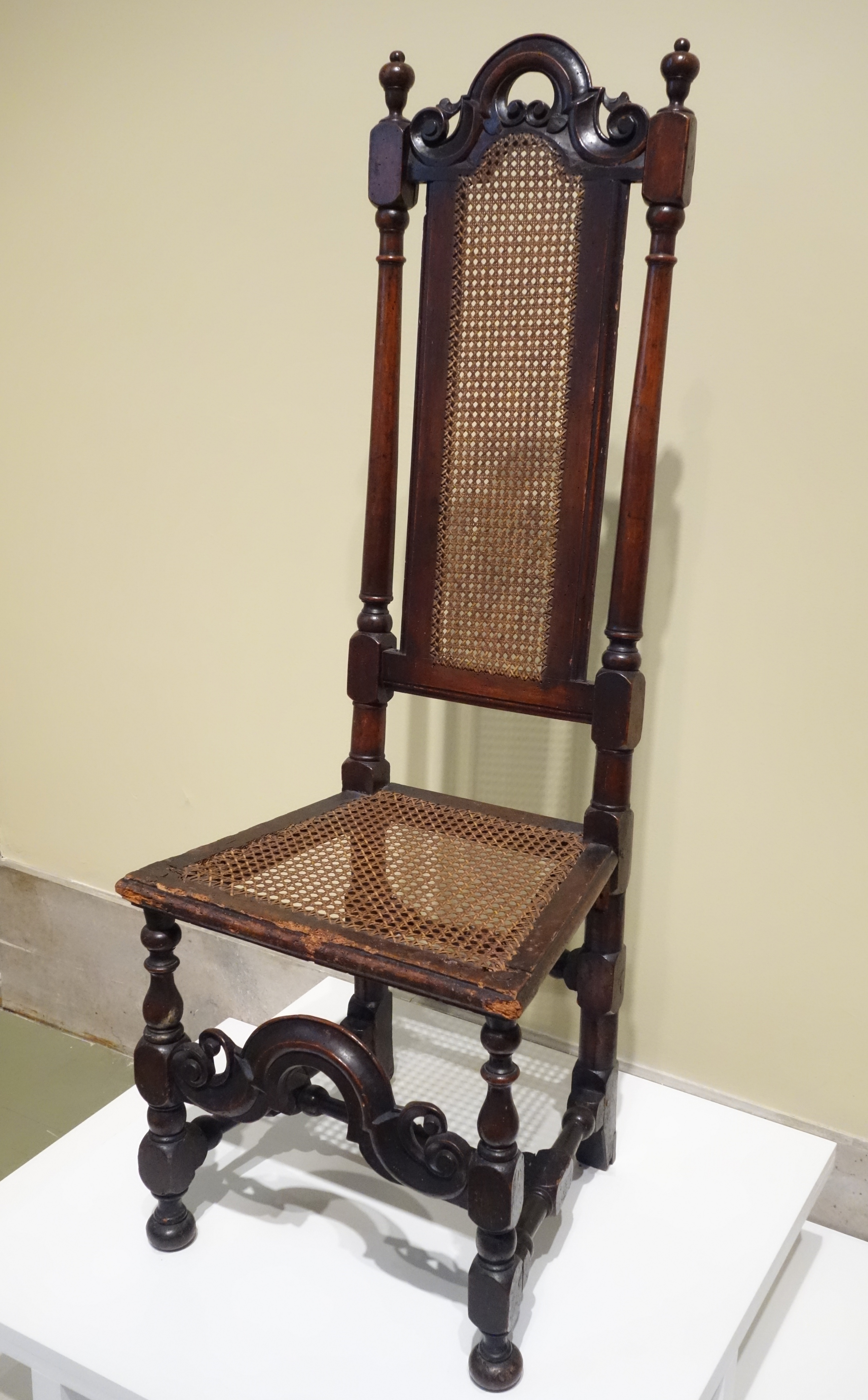 Exhibit in the Brooklyn Museum - Brooklyn, New York, USA. This artwork is in the public domain because the artist died more than 70 years ago.